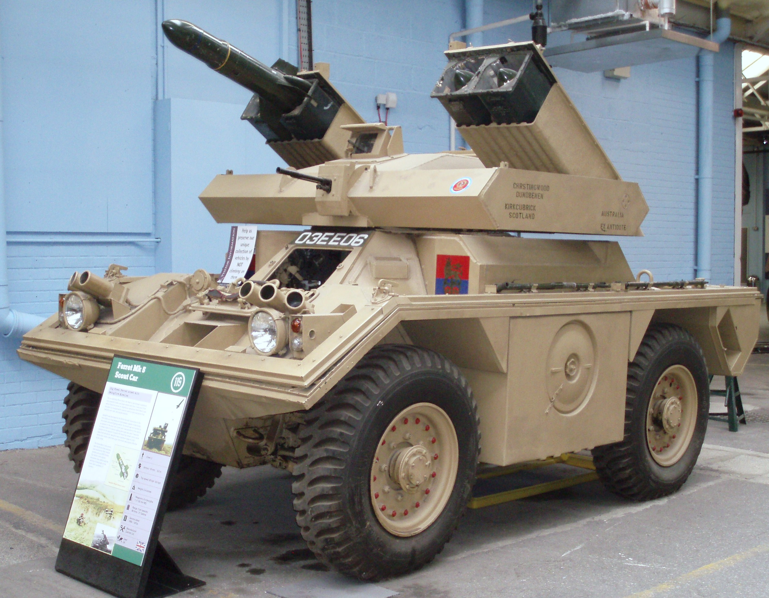 British Ferret armoured car Mk5 at Bovington Tank Museum. It is armed with 4 Swingfire anti-tank missiles.